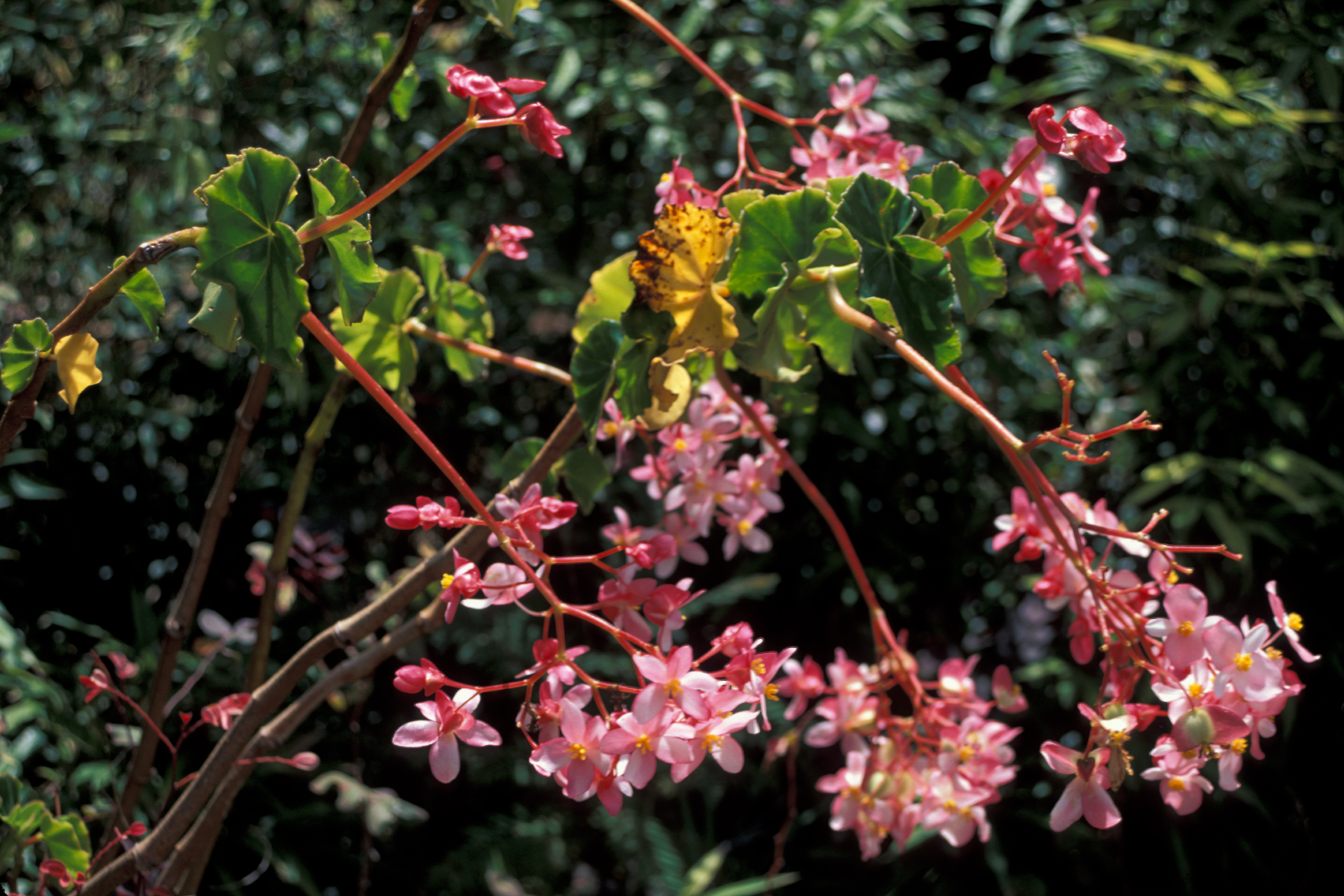 Begonia odorata (flowers). Location: Maui, Enchanting Floral Gardens of Kula